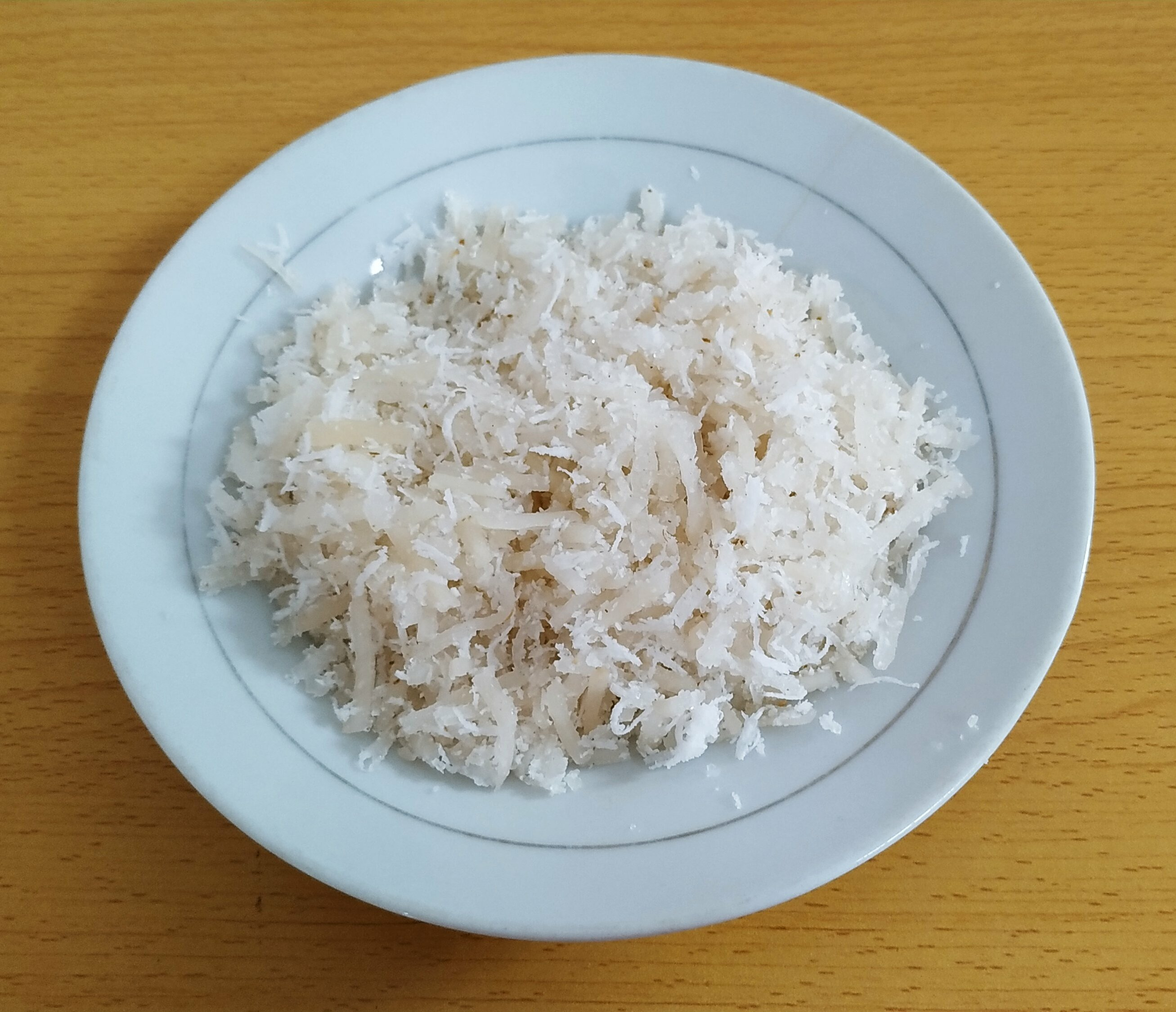 The Madu fruit is a type of coconut-like fruit native to the island of Mata Nui and grows on Madu trees, This dish is usually eaten by grated and eaten with coconut and sugar kukur.